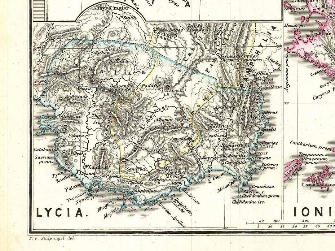 A particularly interesting map, this is Karl von Spruner’s 1865 rendering of Asia Minor in antiquity. This map covers Asia Minor from the Aegean Sea to Armenia and from Cyprus to the Black Sea, including all of modern day Turkey, Cyprus, Lebanon, and Syria. Like most of Spruner’s work this example overlays ancient political geographies on relatively contemporary physical geographies, thus identifying the sites of forgotten towns and villages, the movements of armies, and the disposition of lands in the region. There are three insets in the lower quadrants focusing on the early kingdoms of Lycia and Ionia, as well as a general overview of Asia Minor. As a whole the map labels important cities, rivers, mountain ranges and other minor topographical detail. Territories and countries outlined in color. All text is in Latin. The whole is rendered in finely engraved detail exhibiting the fine craftsmanship for which the Perthes firm is known. Of particular interest to classical scholars.